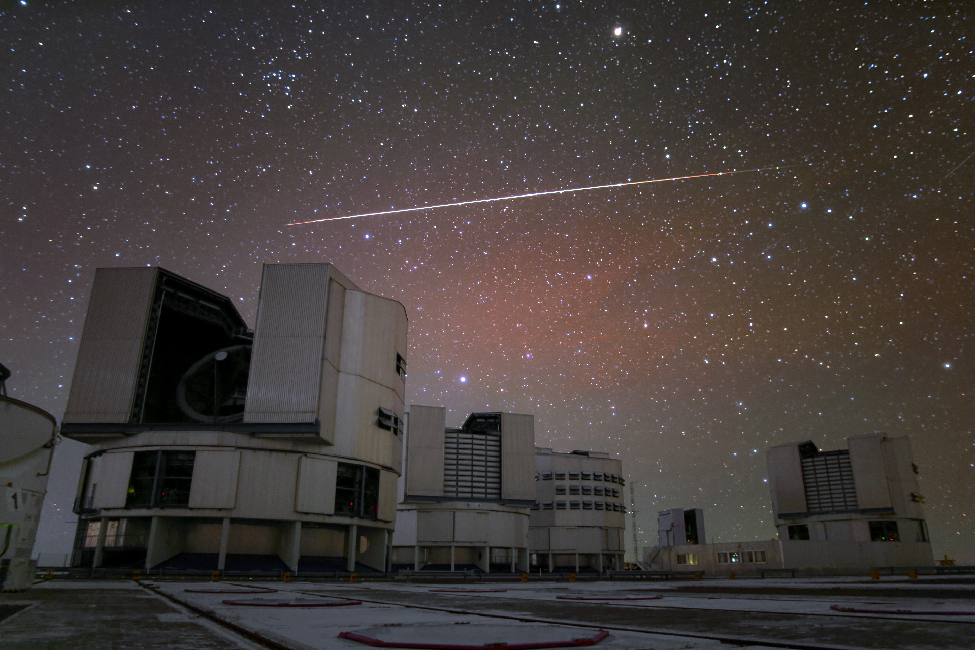 A bright artificial satellite flare is visible above the Unit Telescopes of the VLT.